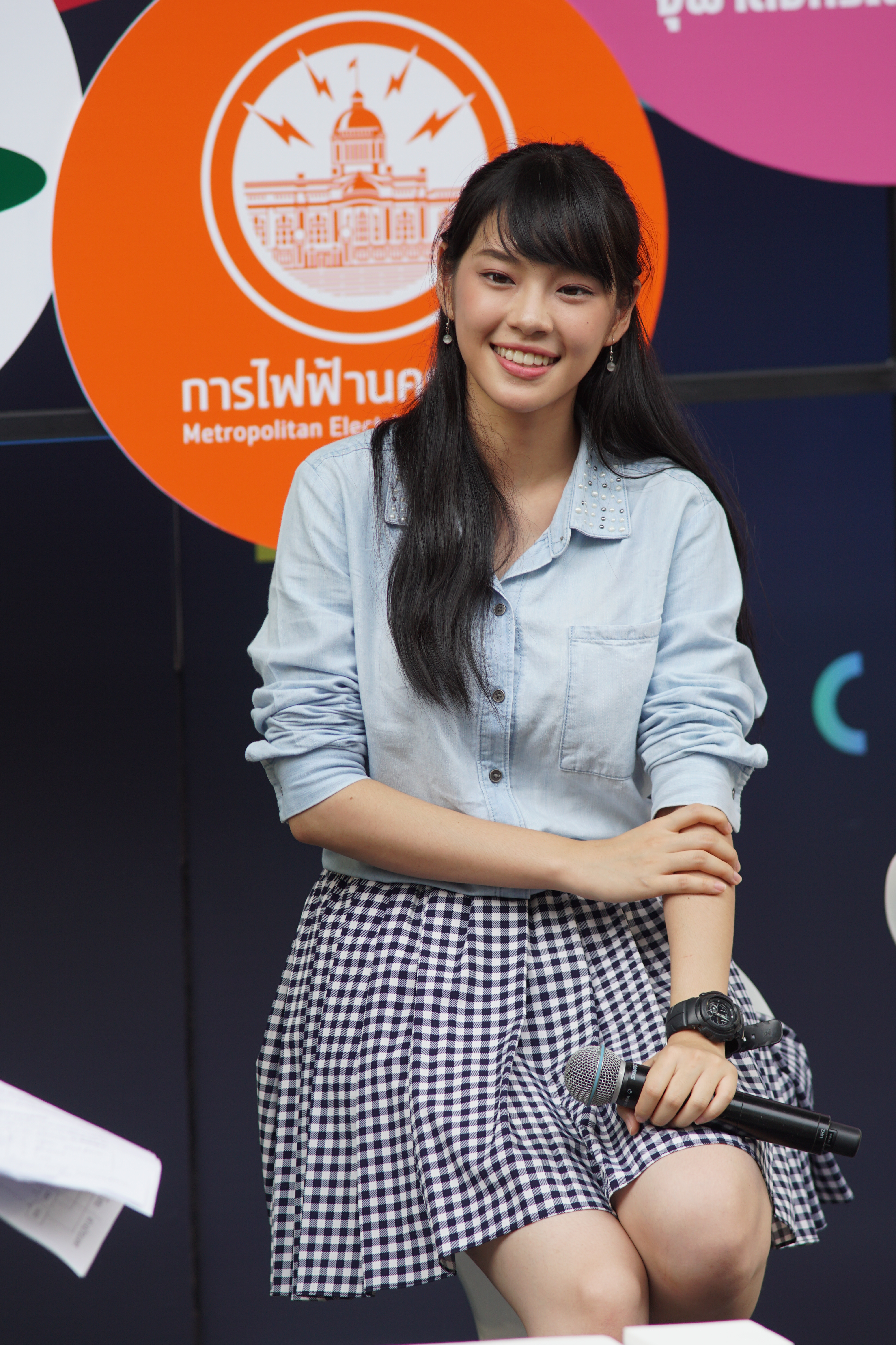 Cherprang Areekul BNK48